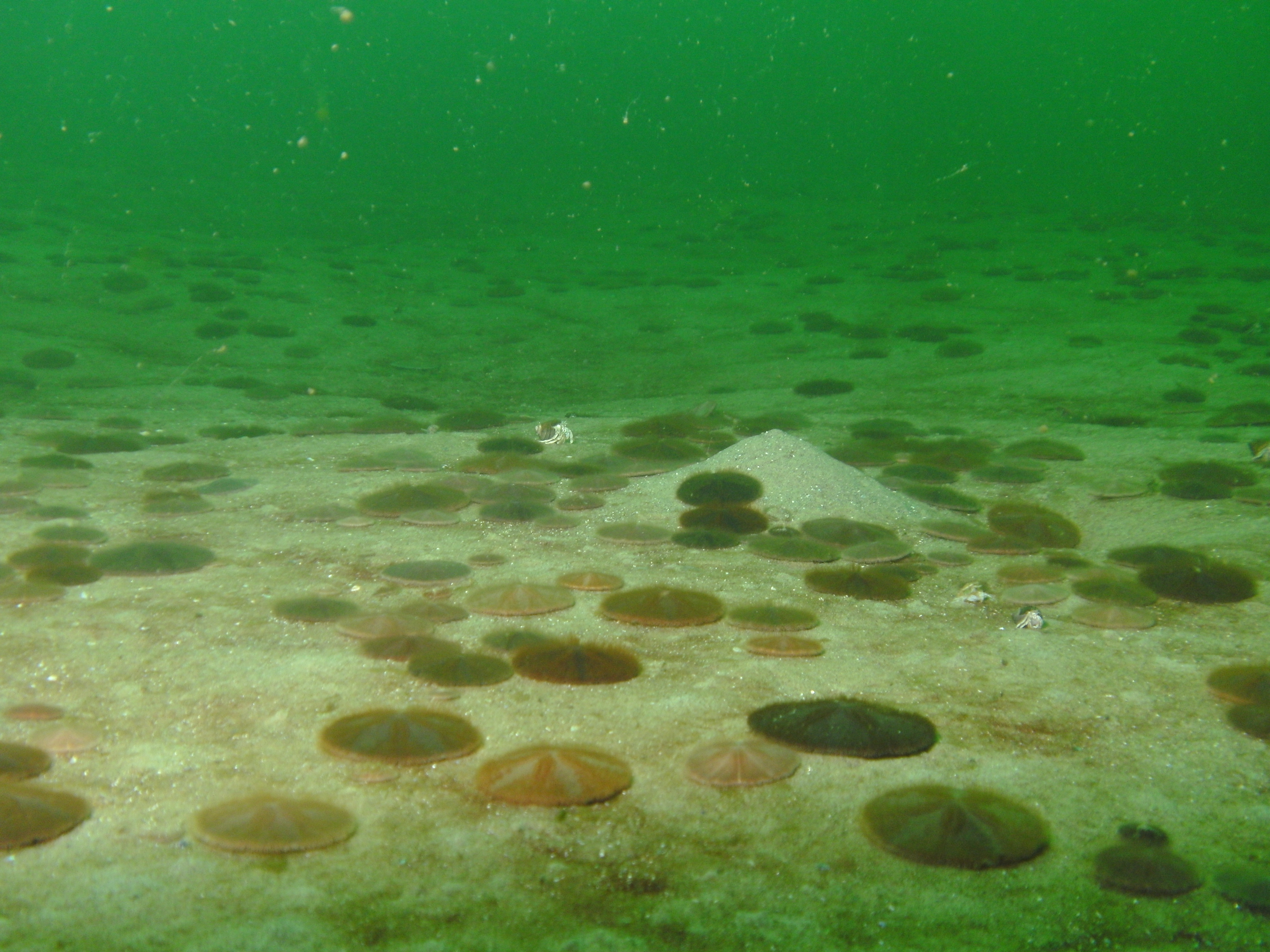 EPA New England divers unexpectedly came upon a very large gathering of sand dollars at Folly Cove in Gloucester, Massachusetts. These sand dollars (Echinarachnius parma) and a few baffled hermit crabs were photographed in 25 feet of water. This unusual scene was captured during a dive to monitor invasive species in the area. From the diver, "Folly Cove is one of my favorite spots to look for invasives. This work allows us to photodocument the presence of many different native species, such as these sand dollars and the attractive shorthorn sculpin." ~Phil Colarusso, U.S. EPA